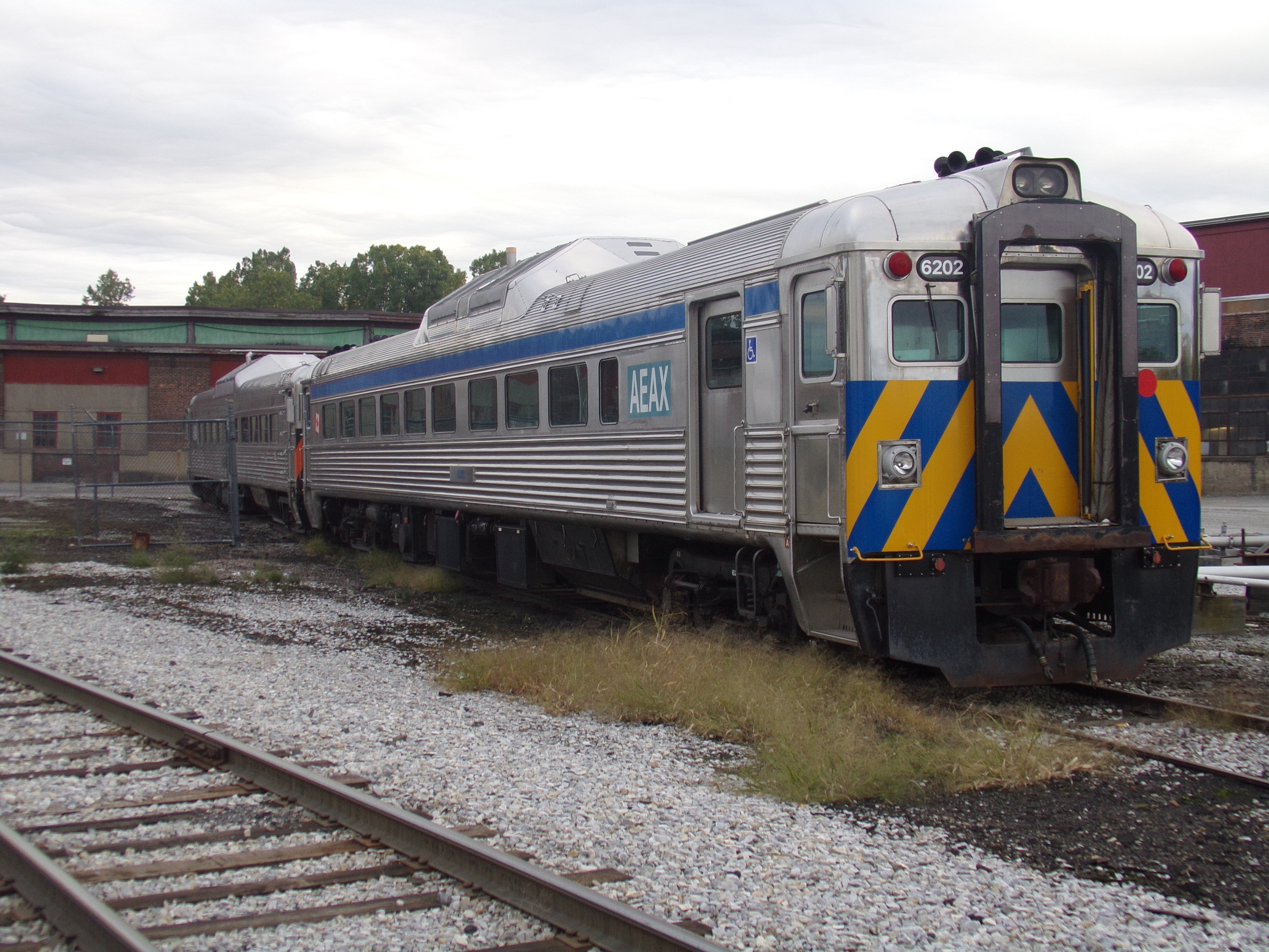 Budd RDC-2 #6202 (ex-VIA) in St Albans, Vermont in October 2018